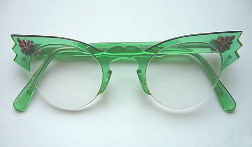 1950s Women's "Cats Eye" Glasses. Circa 1958.